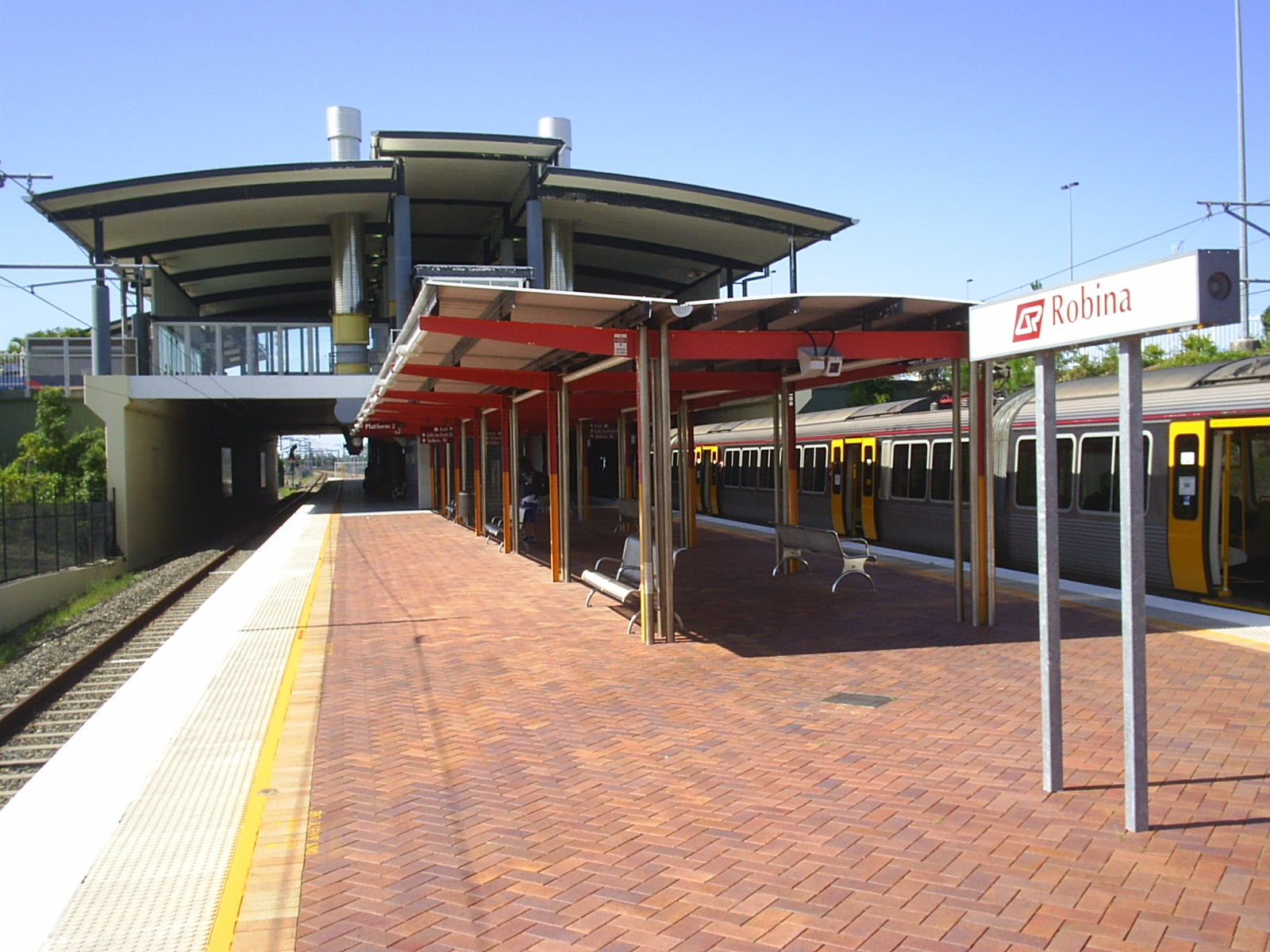 QR Robina Station, taken on platform 2 looking towards the City on 29/12/06 by Qld matt 12:14, 30 December 2006 (UTC)